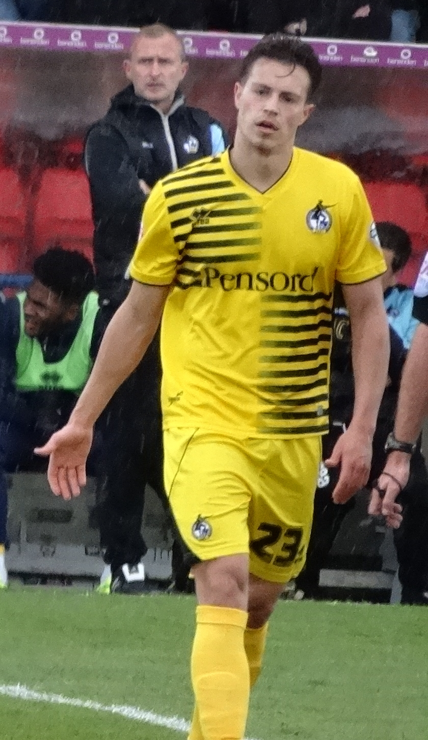 Billy Bodin playing for Bristol Rovers against York City at Bootham Crescent, York on 30 April 2016